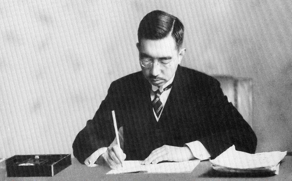 The Emperor Shōwa who signs the Constitution of Japan.